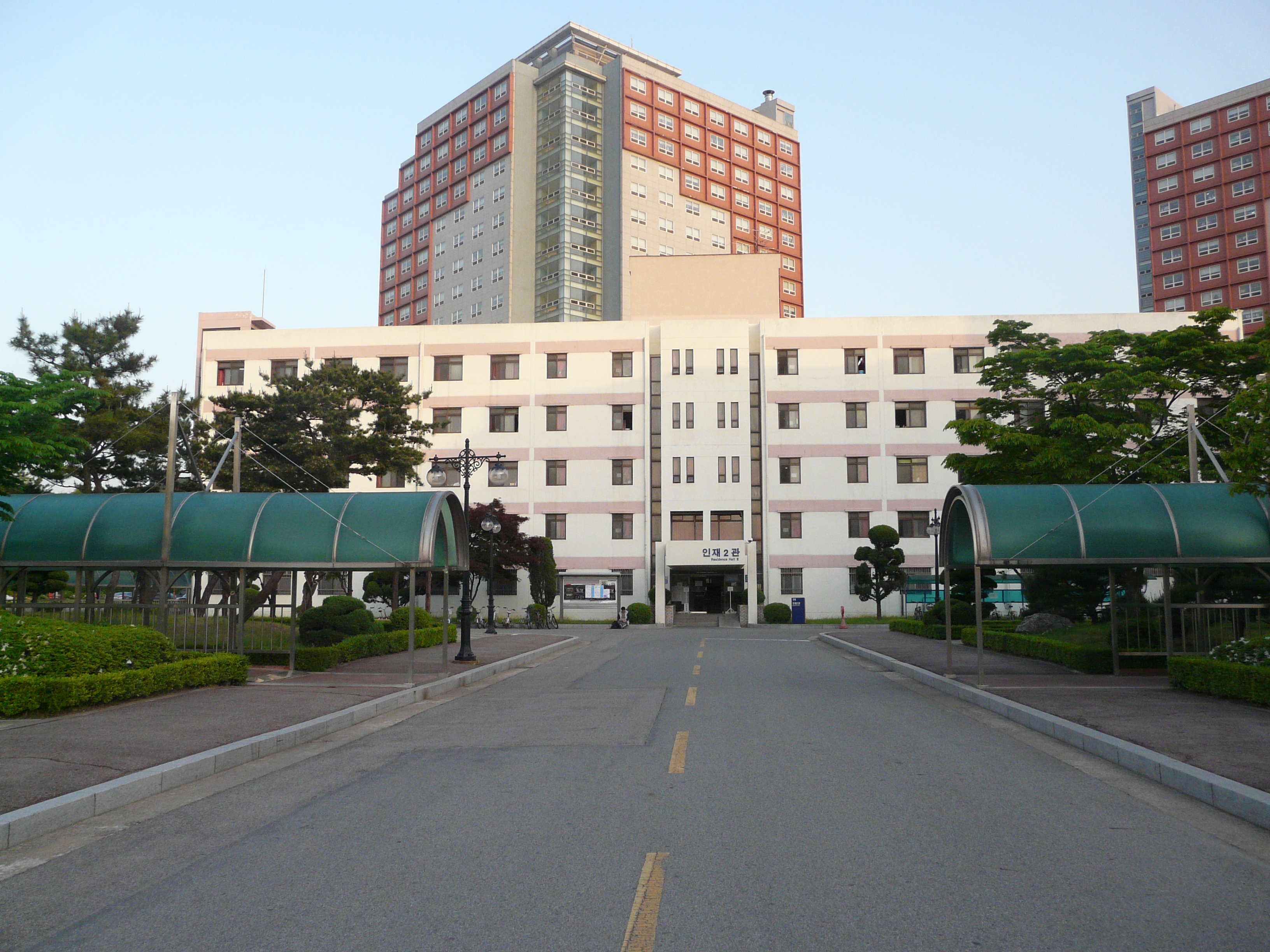 Photos from the ERICA campus of the Hanyang University, Ansan, Korea